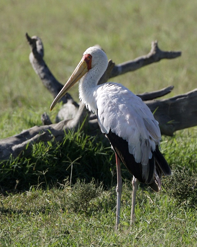 Yellow-billed Stork (Mycteria ibis), Lake Nakuru, Kenya, 30 August 2008.